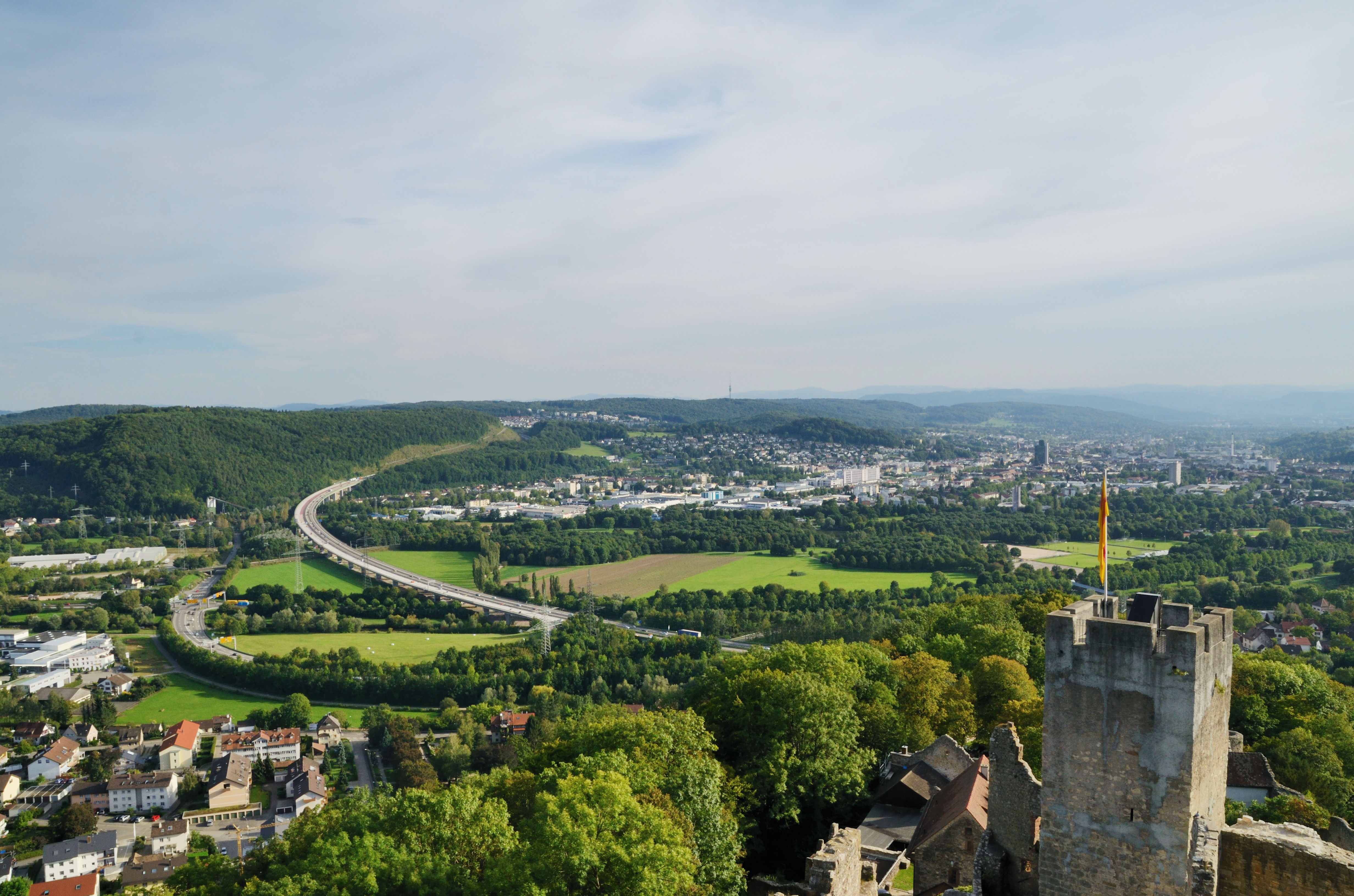 Panoramic view from Rötteln Castle